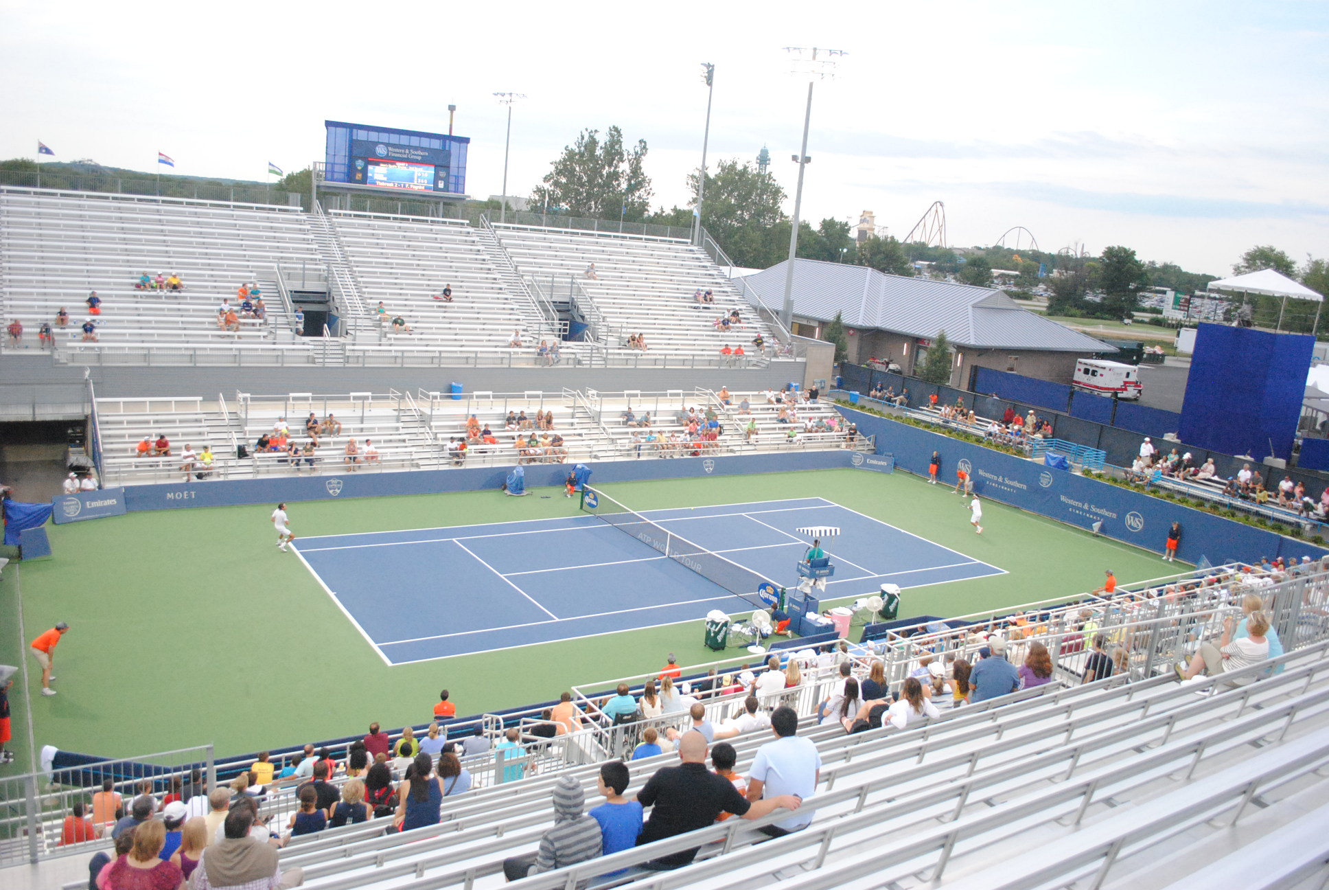 Lindner Family Tennis Center